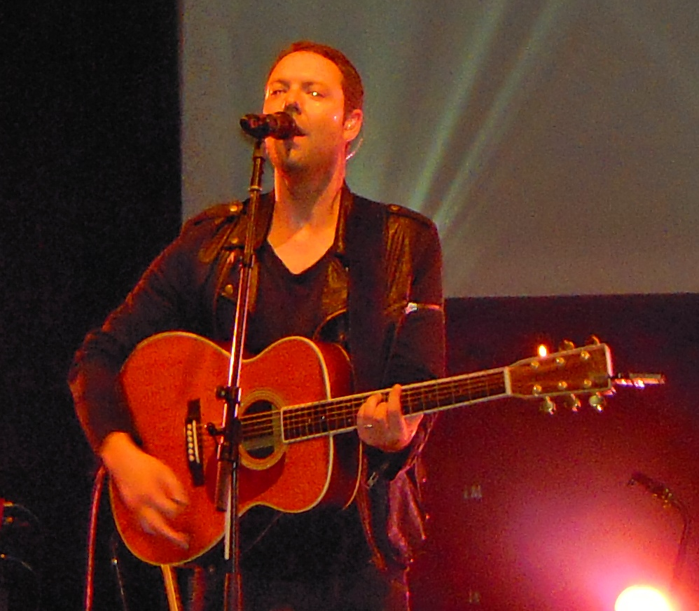 Hillsong Live Australia on the God Is Able Tour, Zagreb.